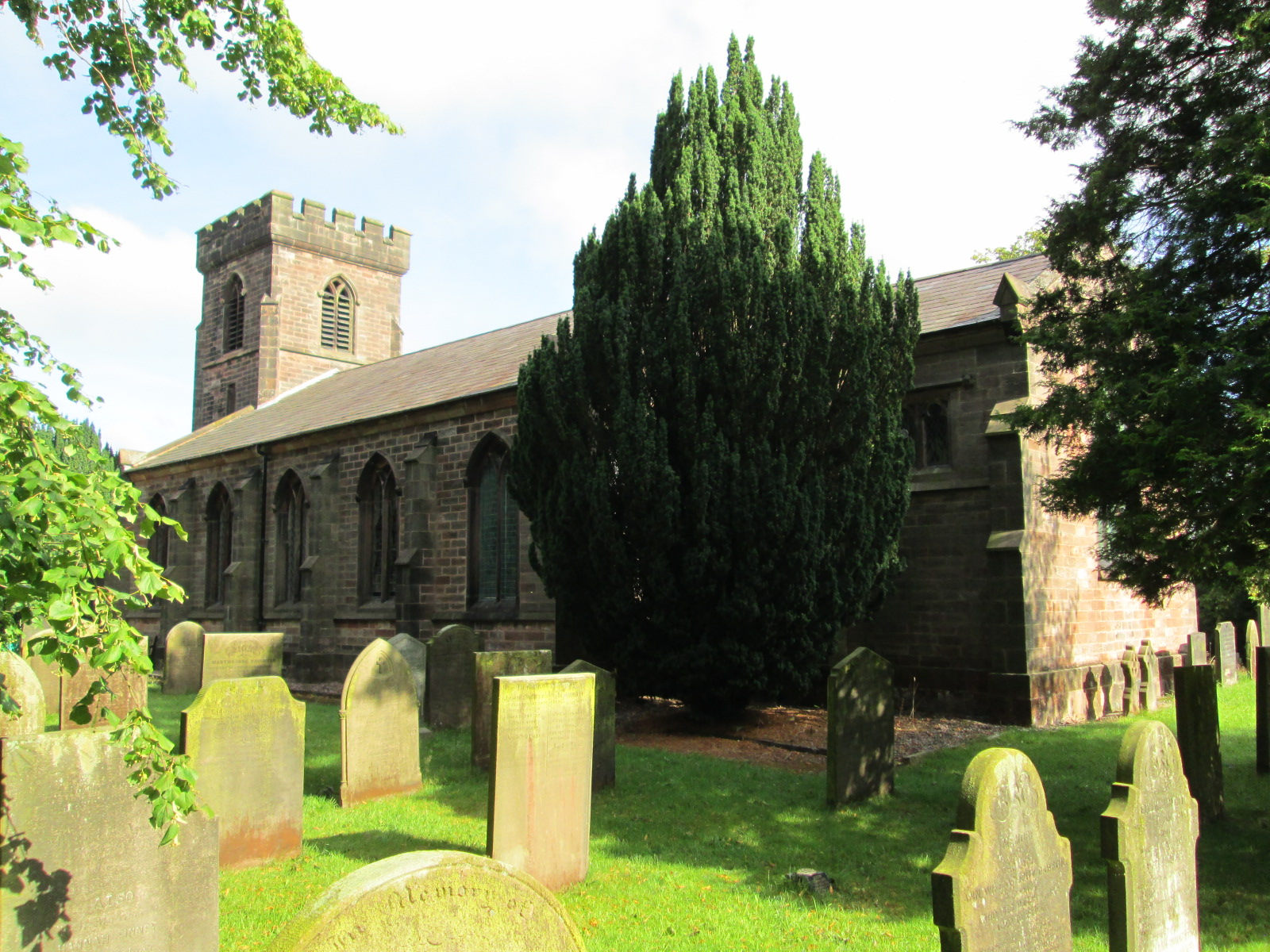 Church of St John the Baptist, seen from the south-east. Mill Lane, Wetley Rocks.